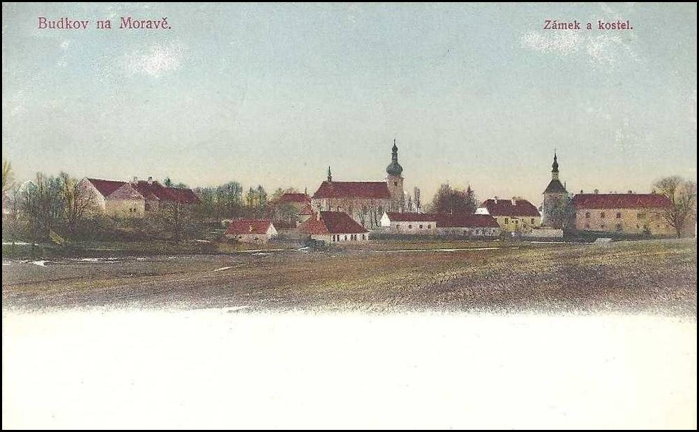 View of Budkov in 1914 in Budkov, Třebíč District.